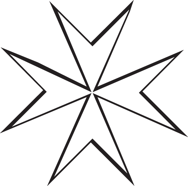 St.John (Maltese) cross with enhanced stroke to create a descrete drop shadow